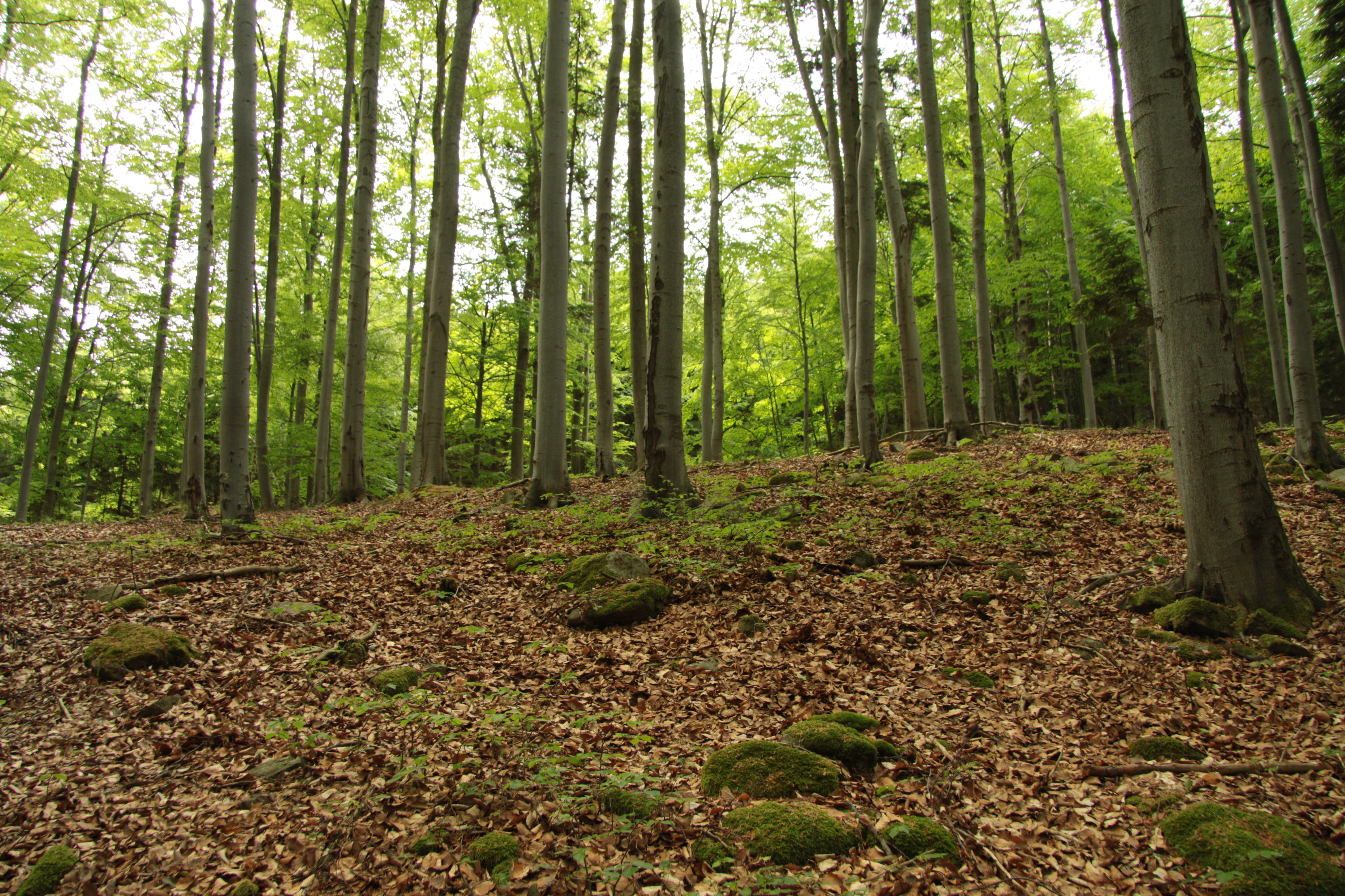 Natural monument U Piláta near Vitějovice village, Prachatice District, Czech Republic - Google Maps - Google Earth